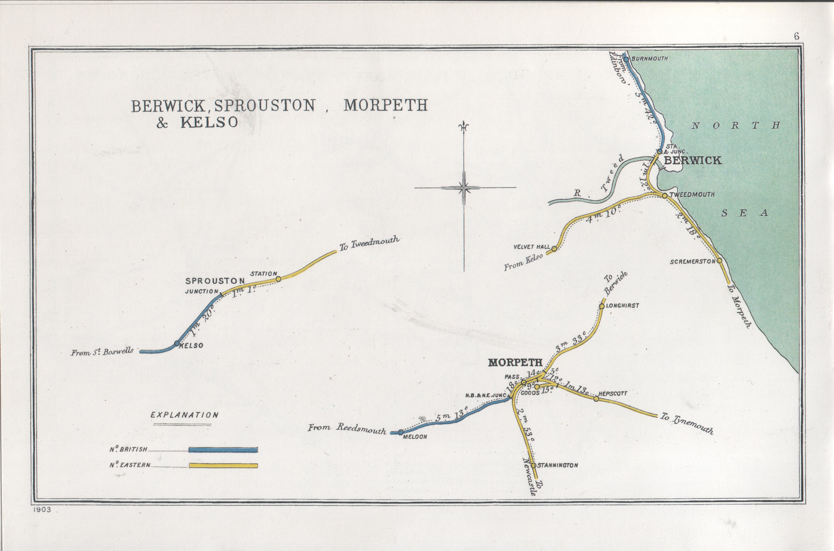 Pre Grouping railway junction around Berwick, Sprouston, Morpeth & Kelso